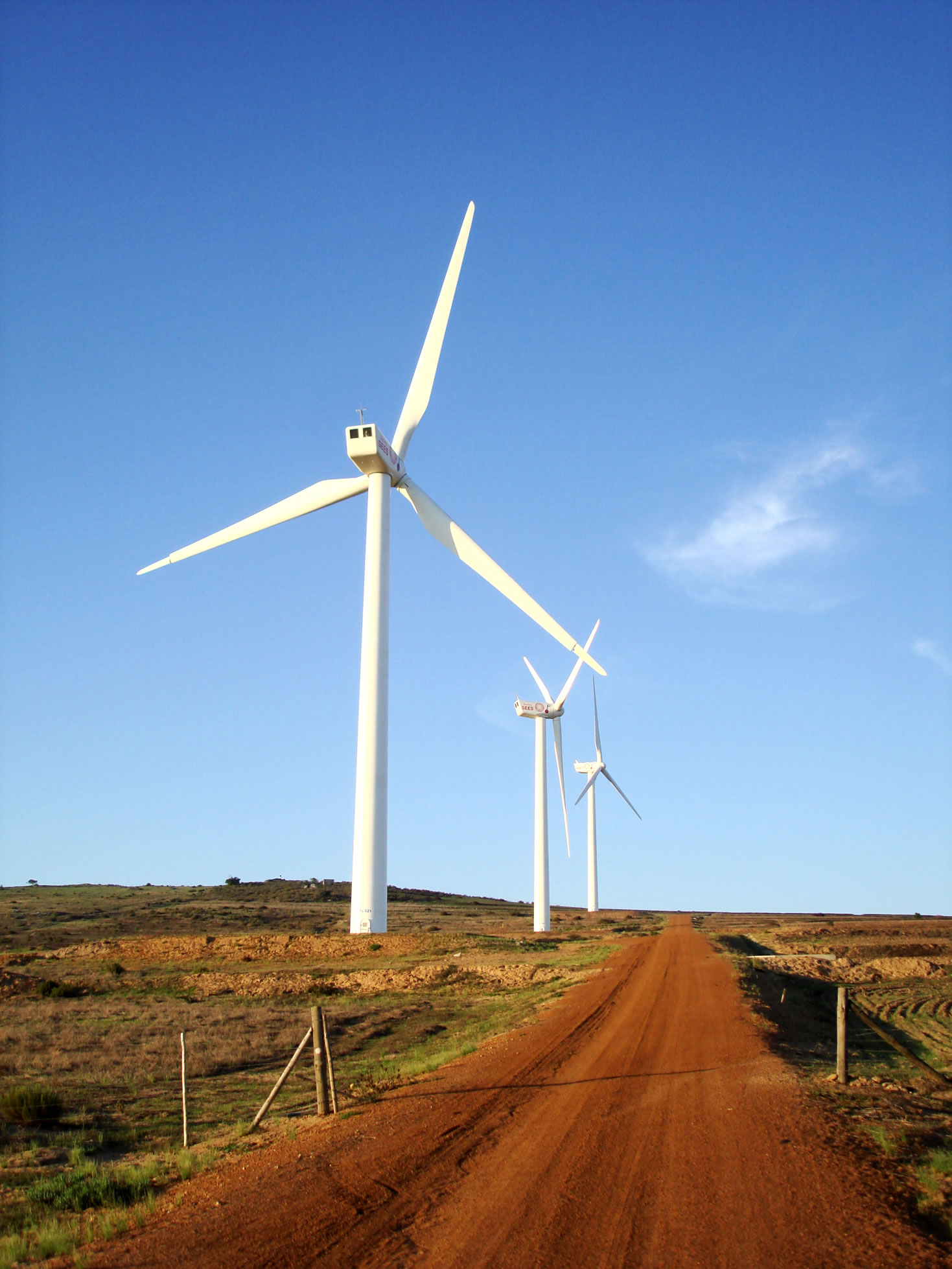 Darling National Demonstration Wind Farm in Cape Town, South Africa